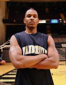 Julian Terrell playing basketball